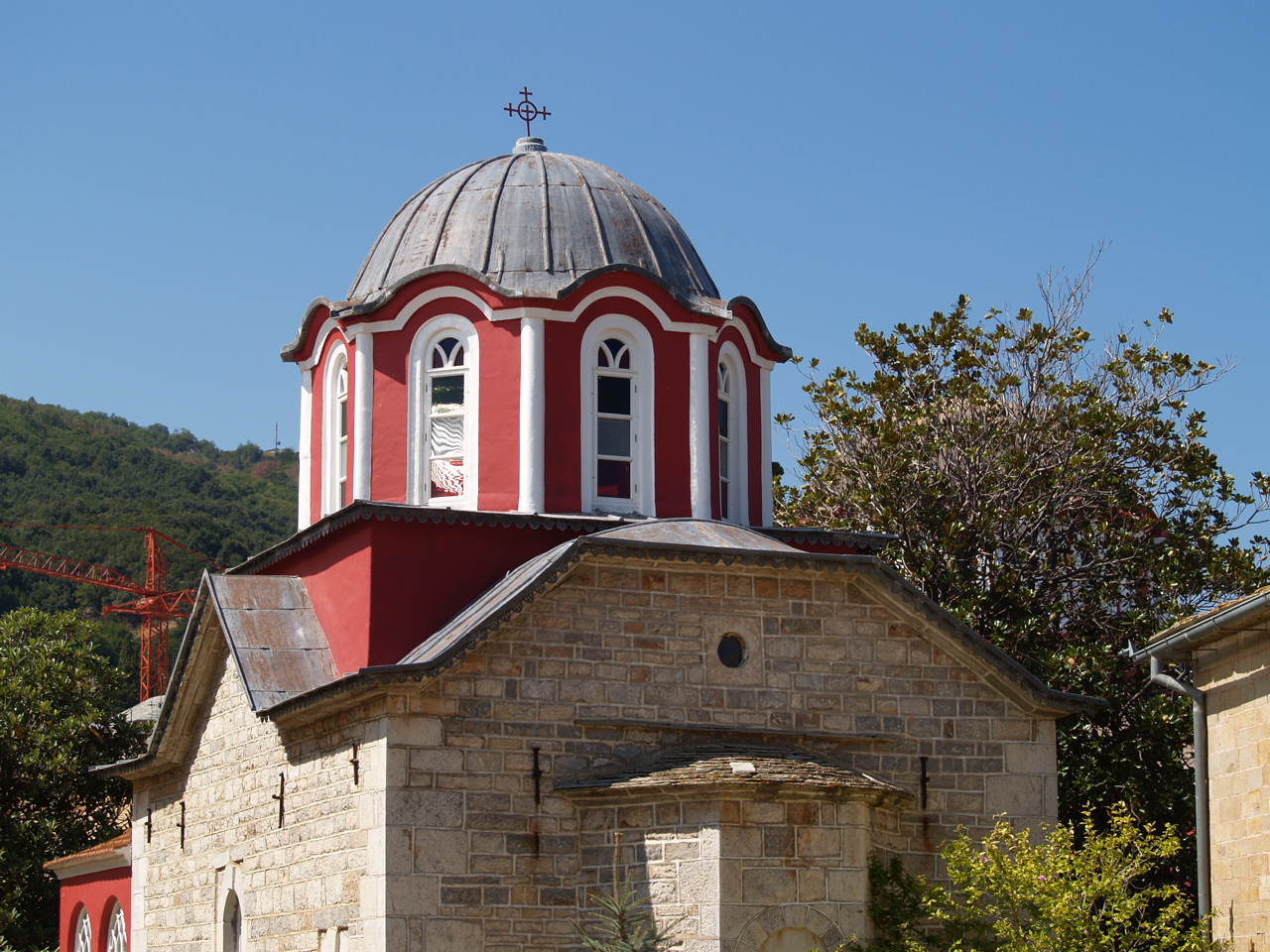 Great Lavra